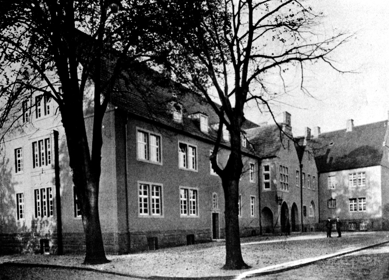 Office of the rural district Halle (Westf.)